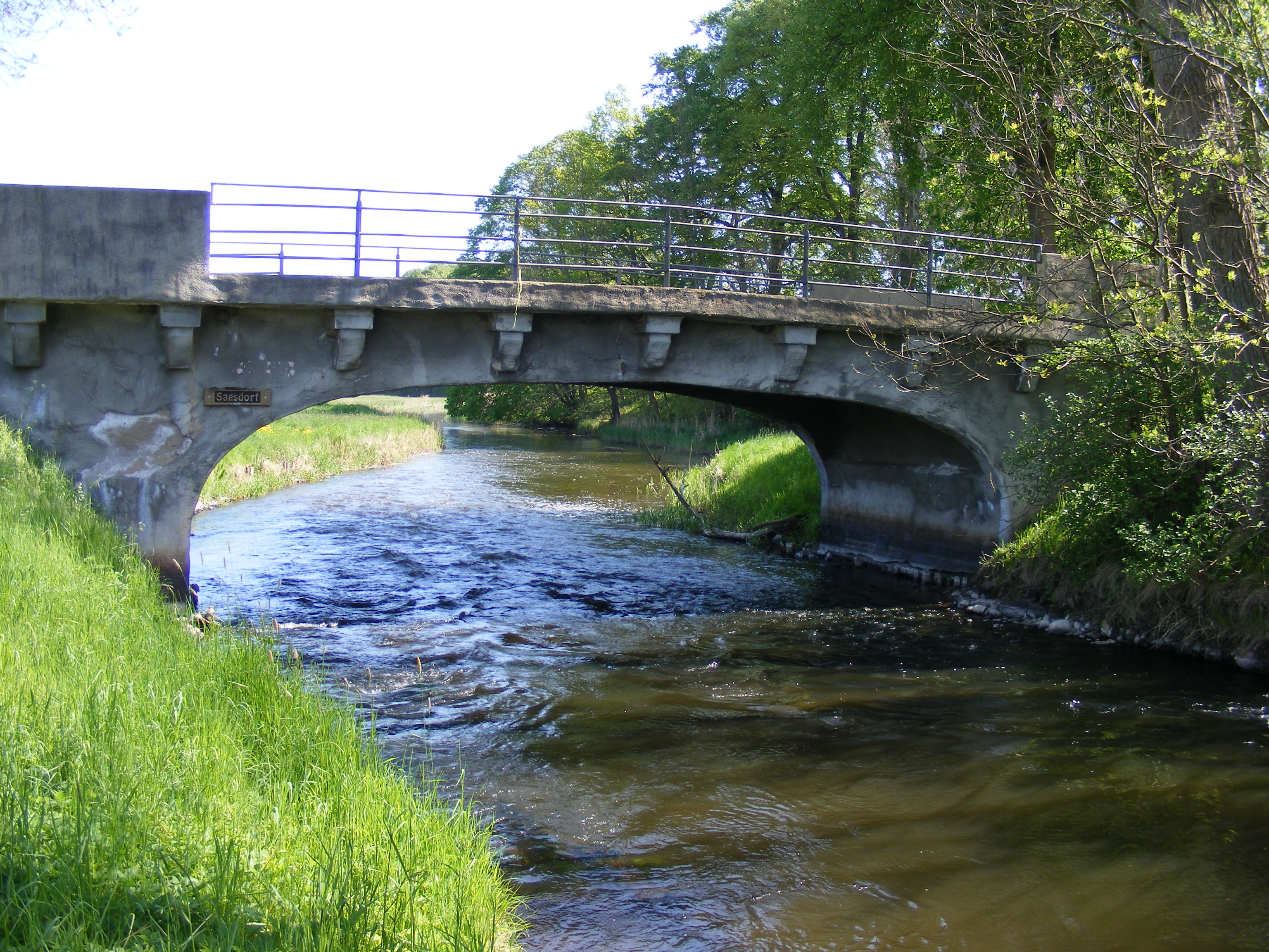 Historic Sagsdorf Bridge, near Sternberg, Mecklenburg, Germany